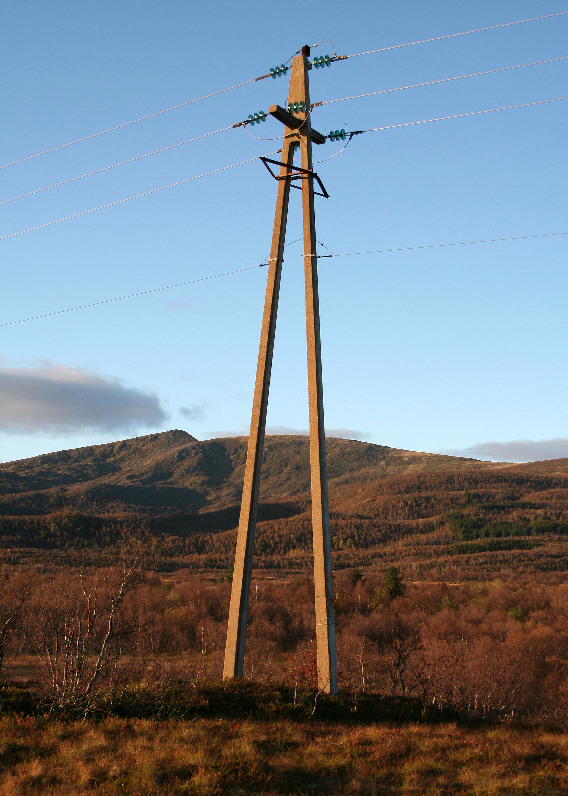 Power transmission pylon at Vikeidet, Sortland, Norway. The power line is 22 kV. It was built in 1943.